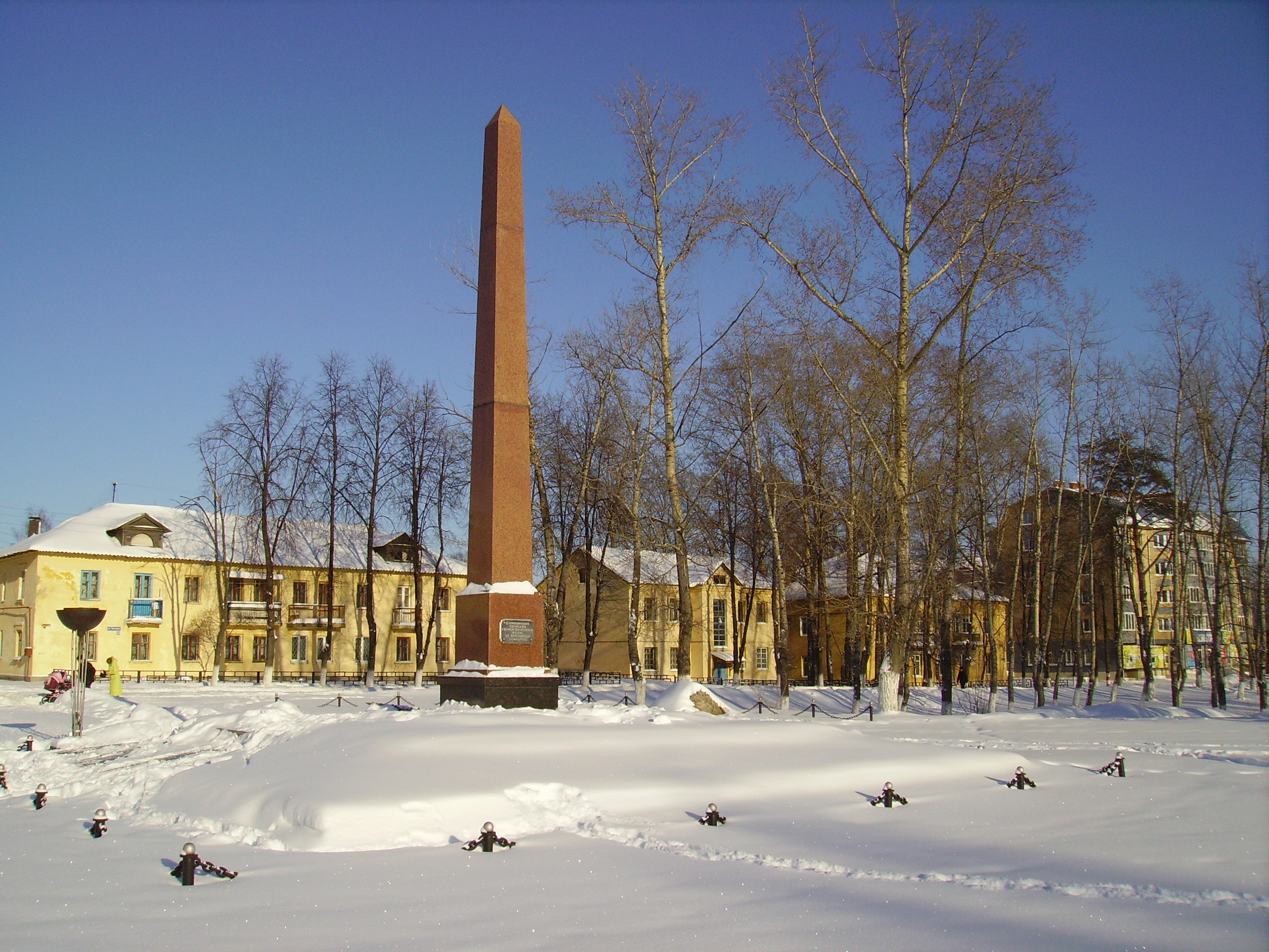 Great Patriotic War Monument at Glass Plant side